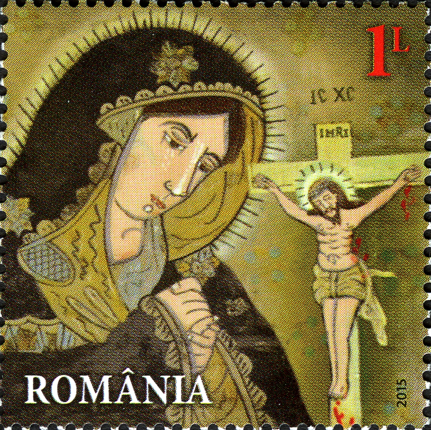 Stamps of Romania, 2015